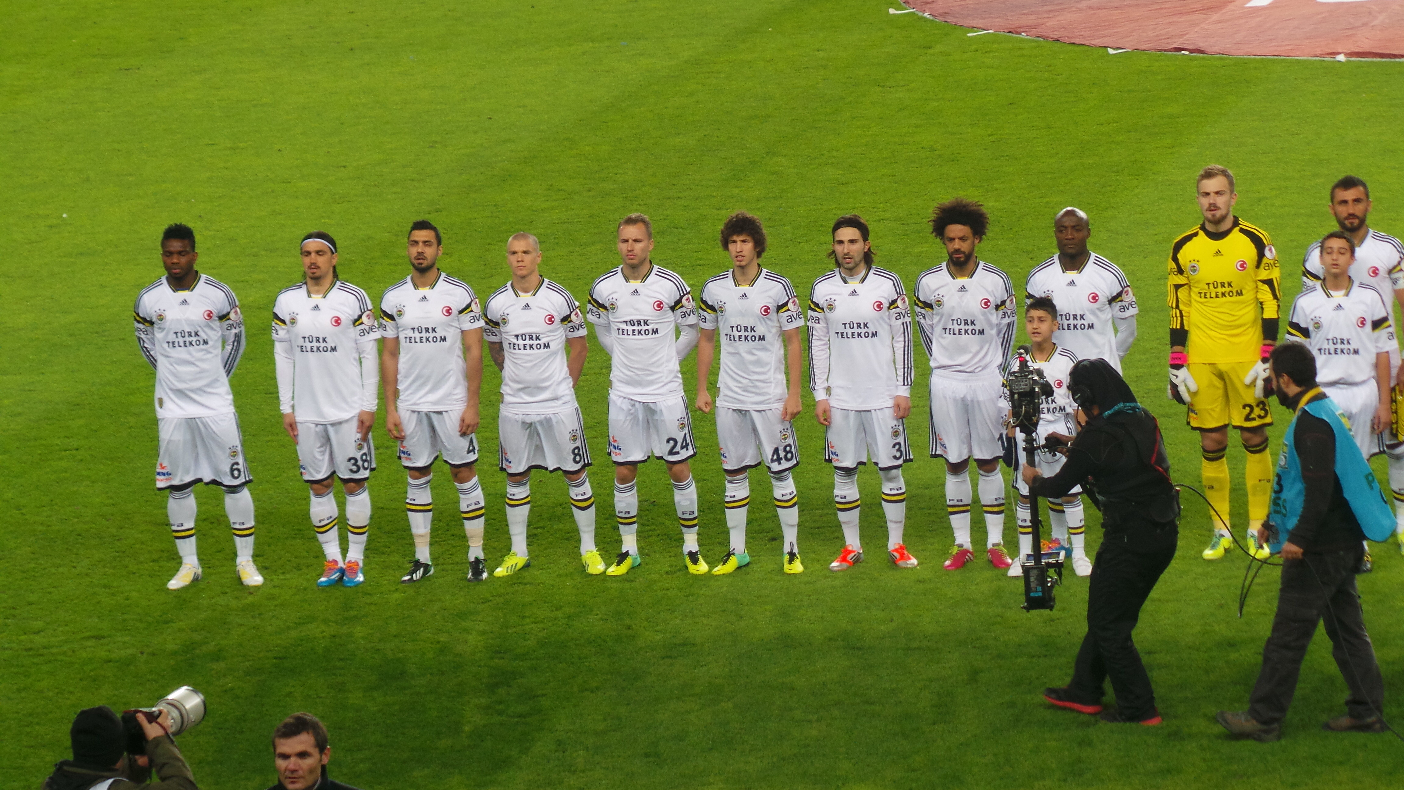 Fenerbahçe squad - List of players: Joseph Yobo (Jersey Number #6), Mehmet Topuz (#38), Bekir İrtegün (#4), Samuel Holmén (#8), Michal Kadlec (#24), Salih Uçan (#48), Hasan Ali Kaldırım (#3), Cristan Baroni (#16), Pierre Webó (#9), Mert Günok (#23 - Goalkeeper) and Selçuk Şahin (#21 - Teamcaptain)